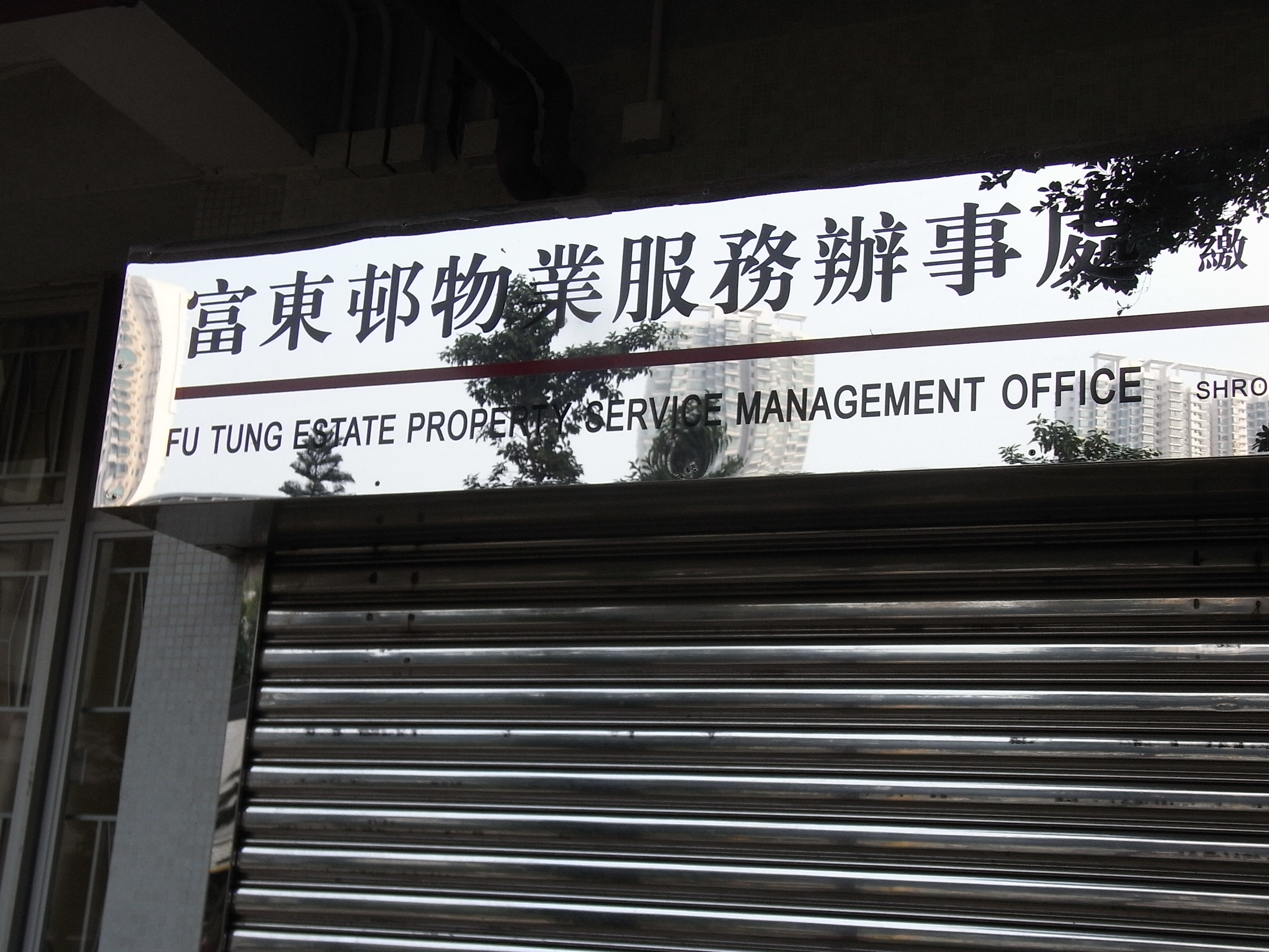 東涌 富東邨, Fu Tung Estate, Tung Chung, Islands District, Hong Kong